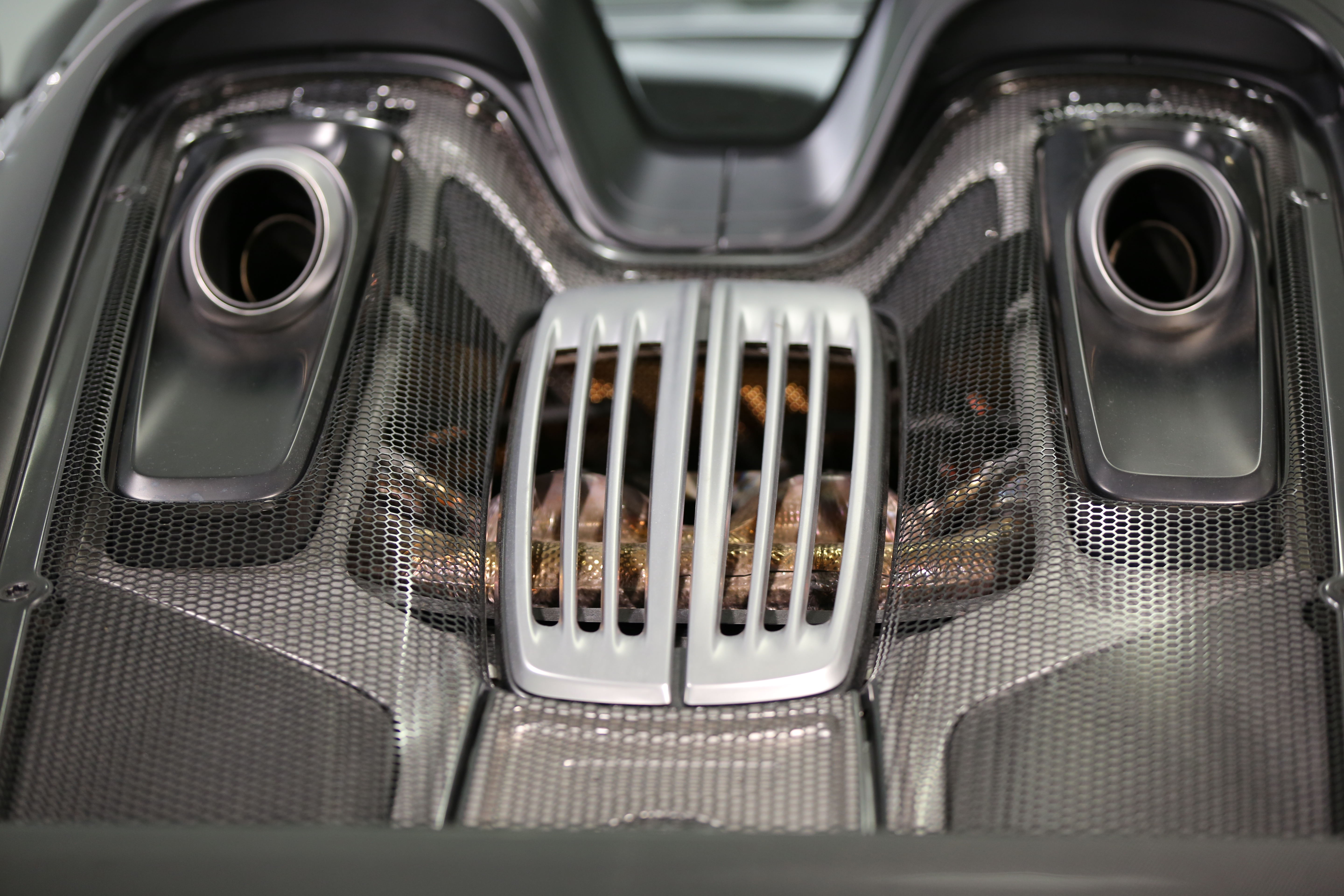 Porsche 918 On display at Porsche Museum, Stuttgart, Germany